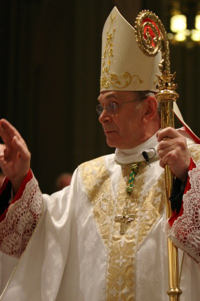 Bishop Roger Joseph Foys as he exits the Cathedral Basilica of the Assumption in Covington, KY